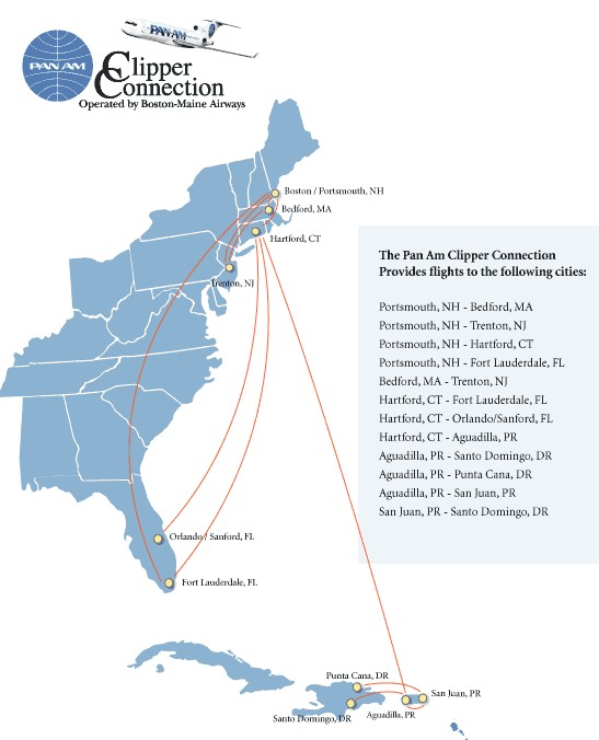 PANAM Destinations 2005